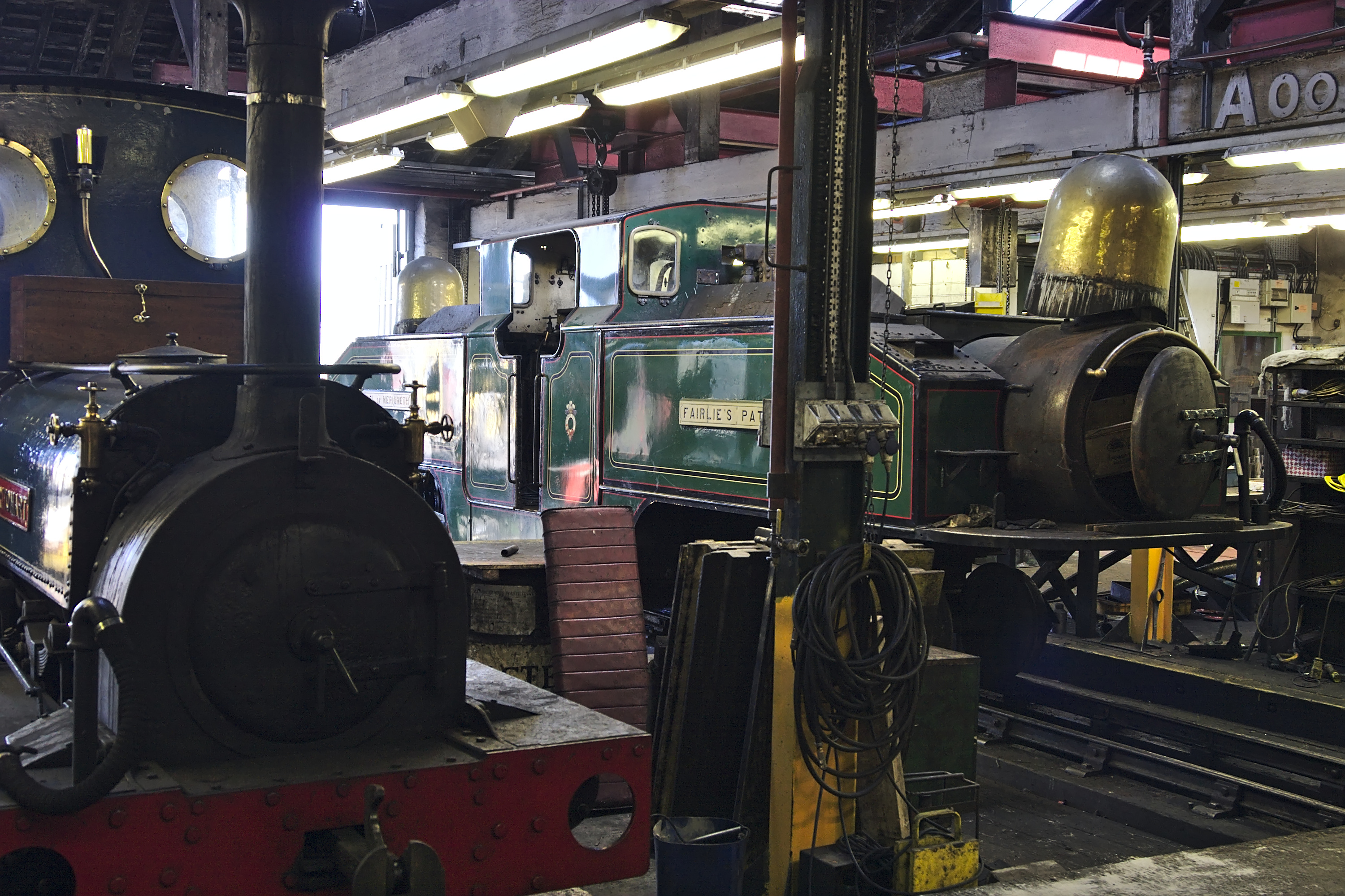 Britomart and Earl of Merioneth inside Boston Lodge workshops.